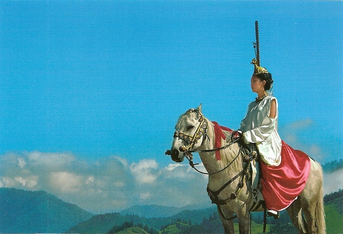 Altaian woman in Altaic Pazyryk national costume.